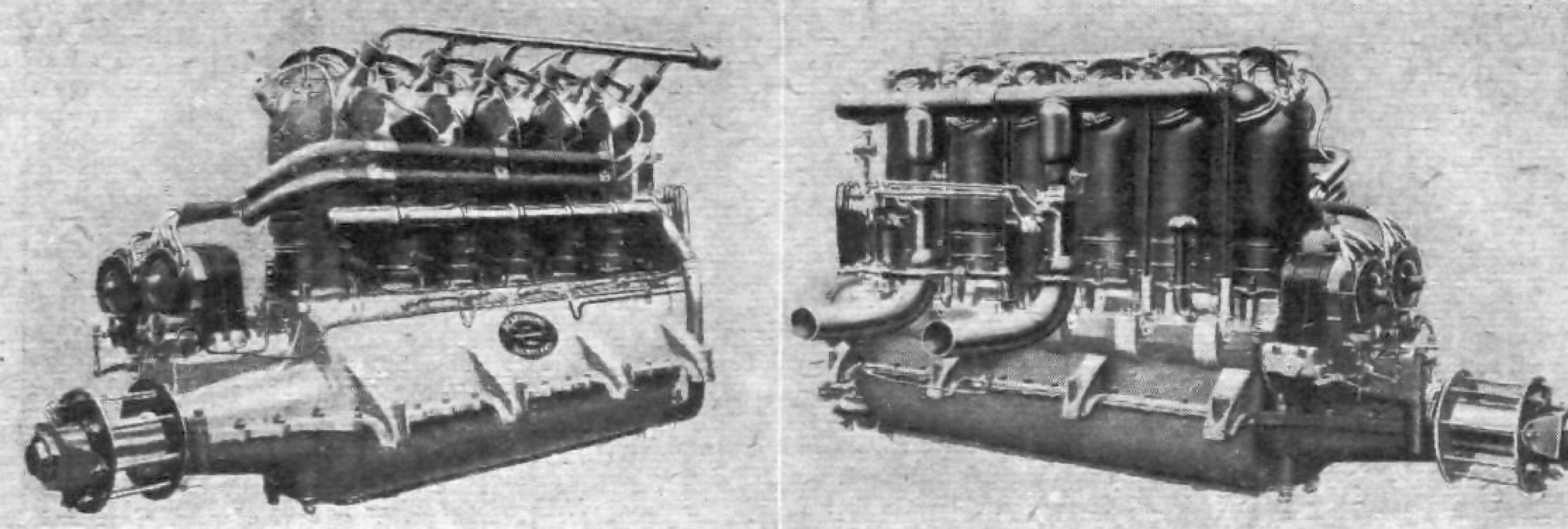 Exhaust and induction side views of the Beardmore 160hp aircraft engine